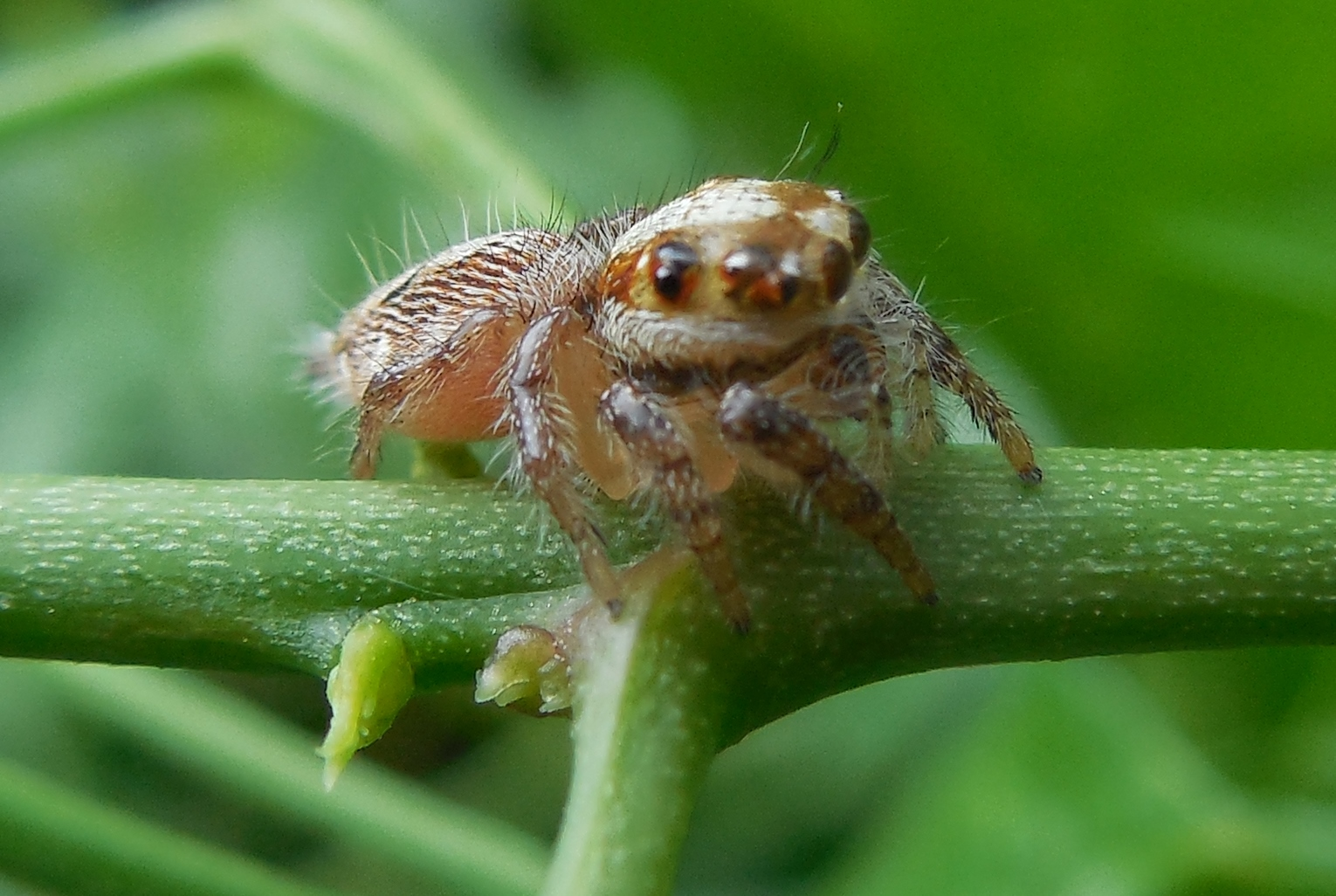 A garden spider seen in Chennai.